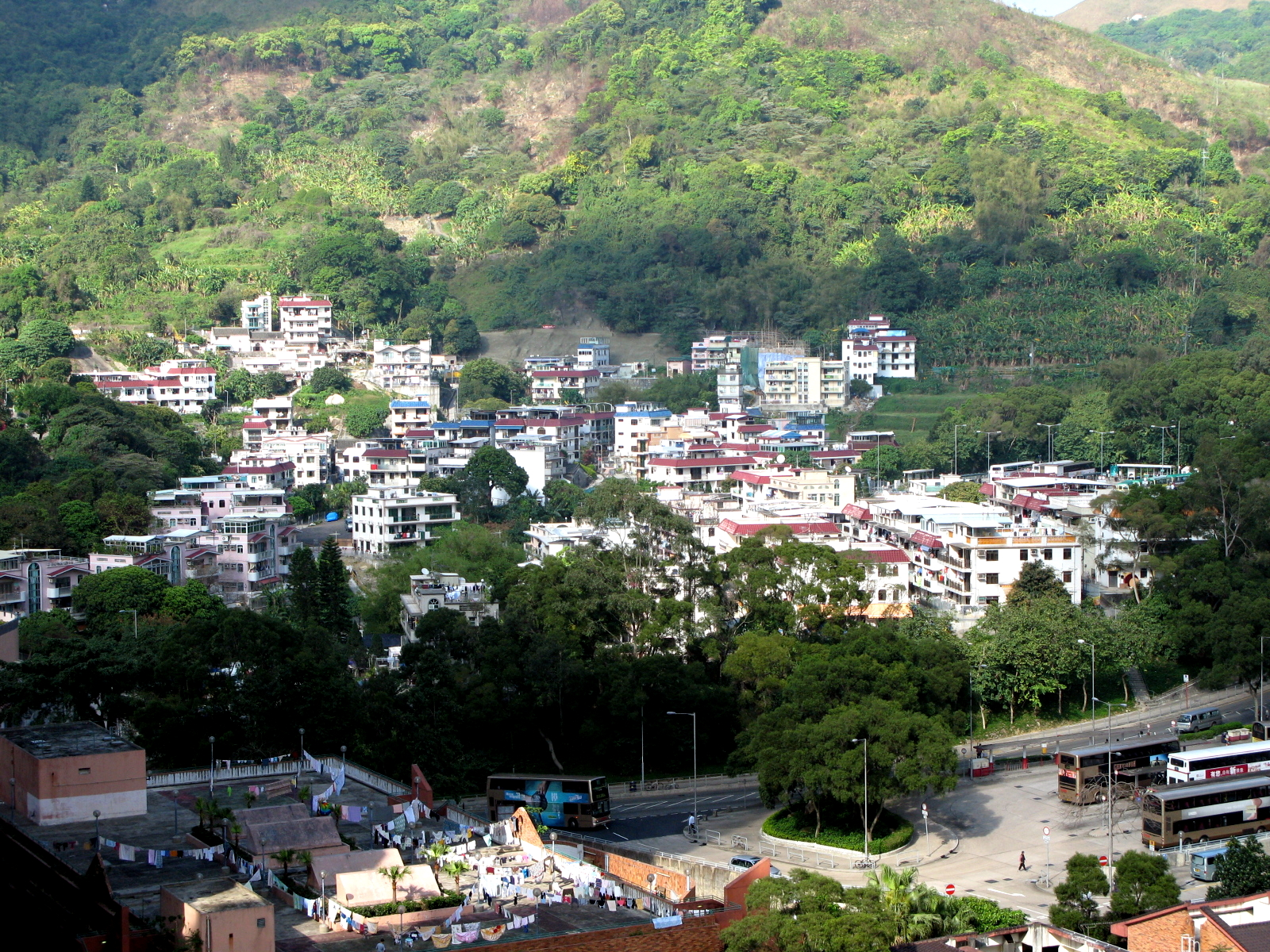 沙田黃泥頭 HK Shatin Wong Nai Tau